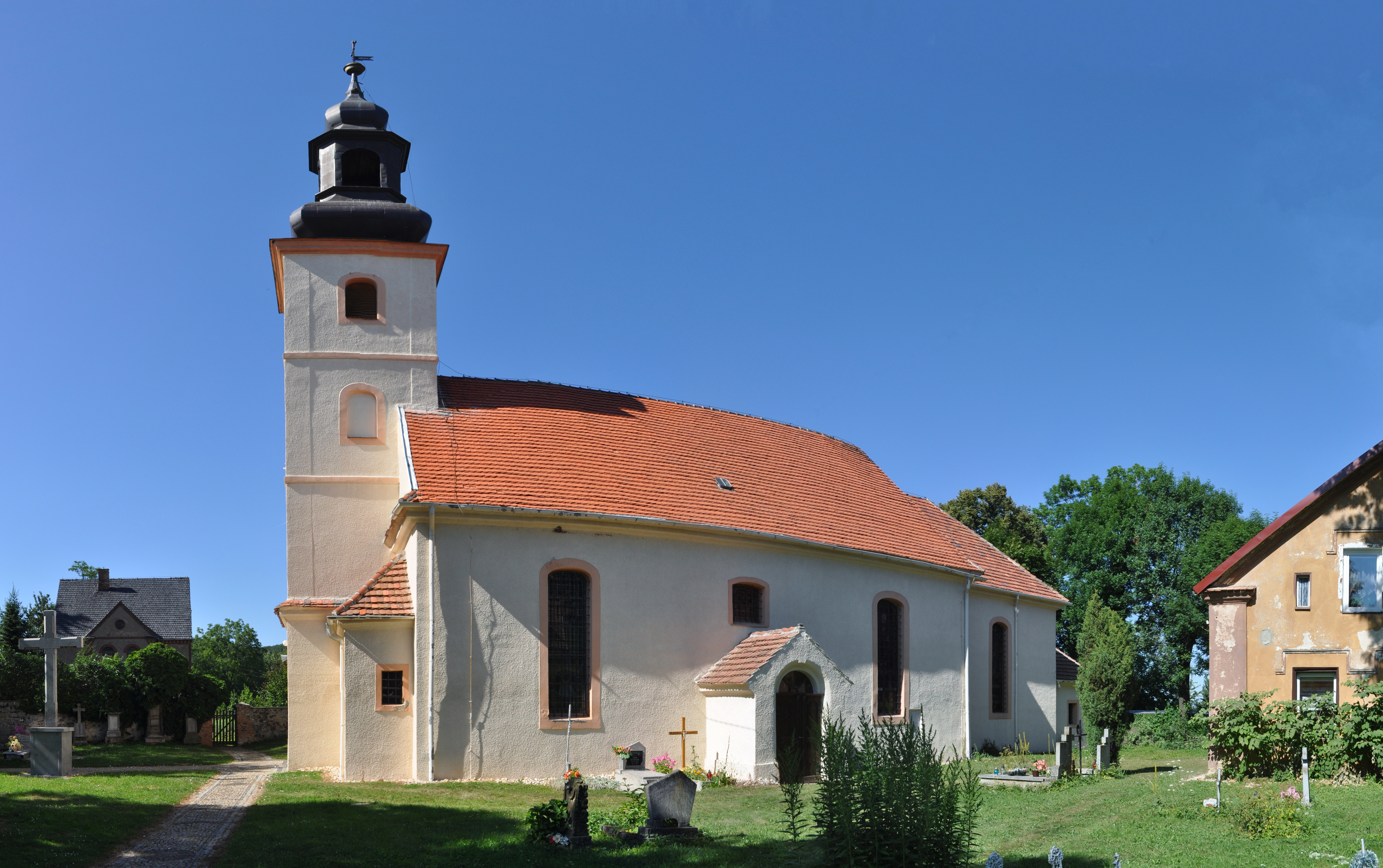 Saint Joseph church in Kwietniki, Poland